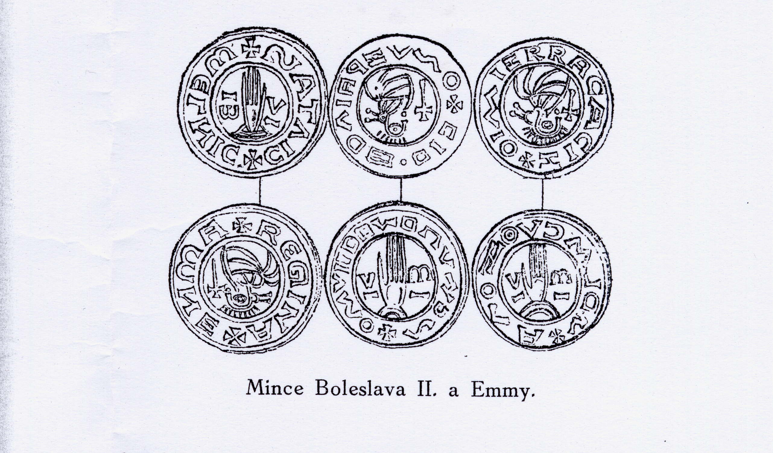 coins of Boleslav II. and Emma, duke and duchess of Bohemia, 10. century